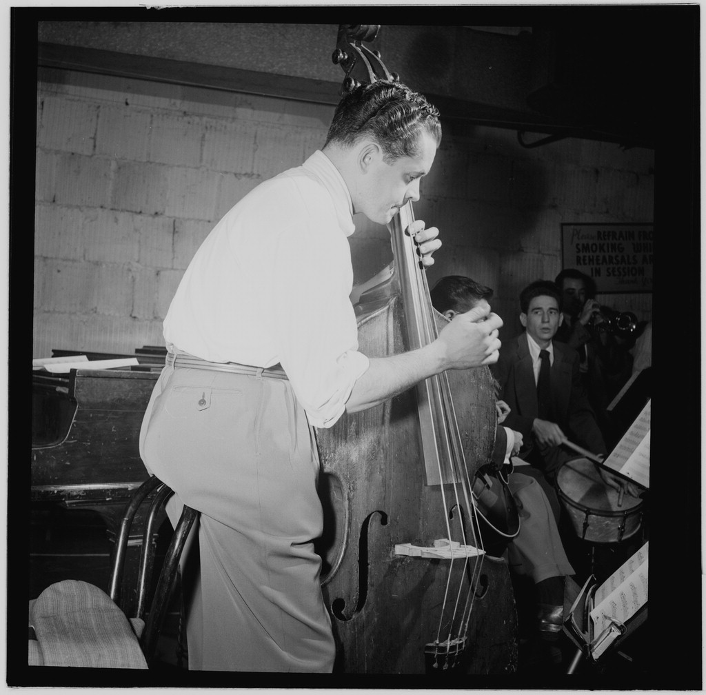 Eddie Safranski and Shelly Manne